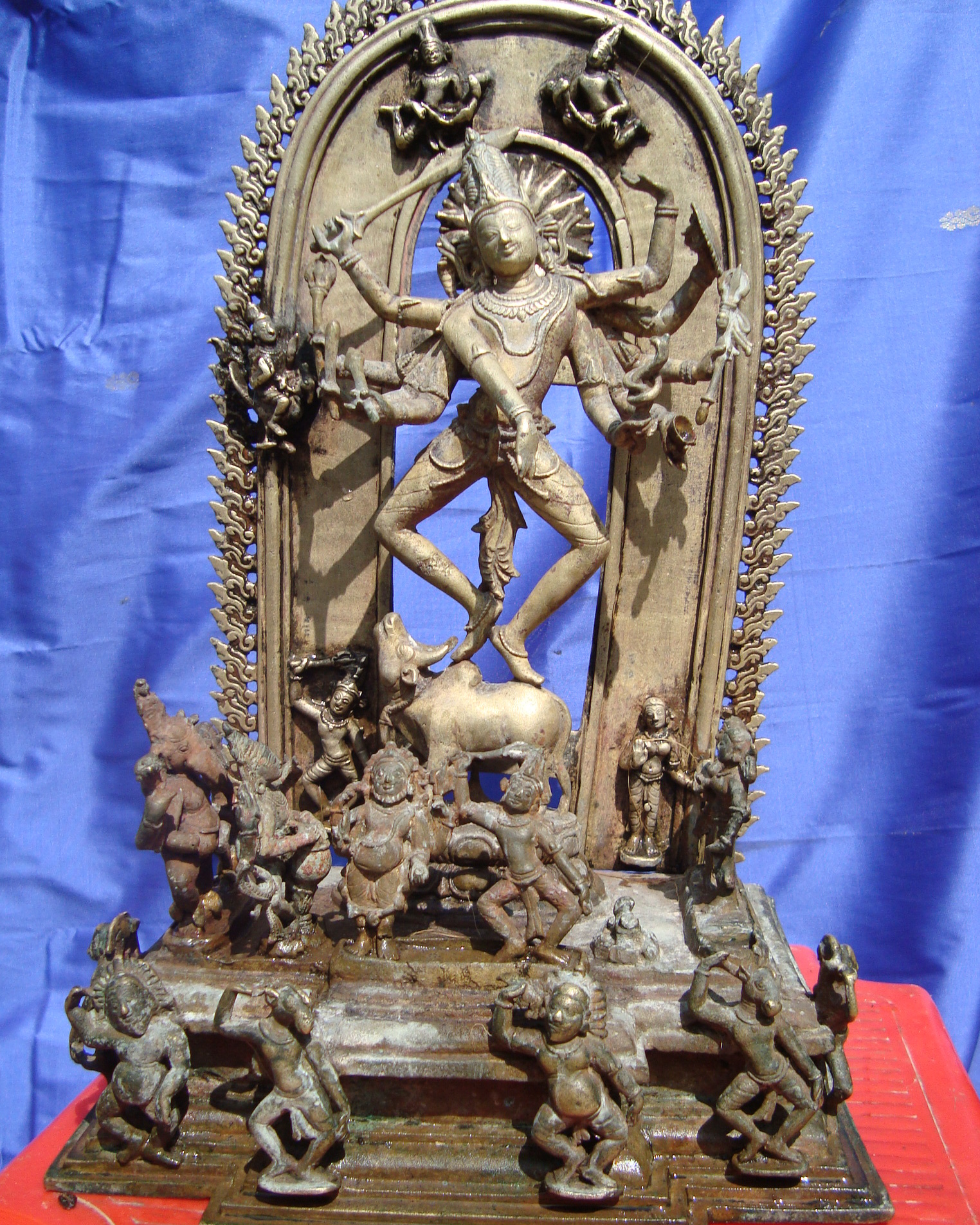 This is victory symbol of King Rajendrachola-I